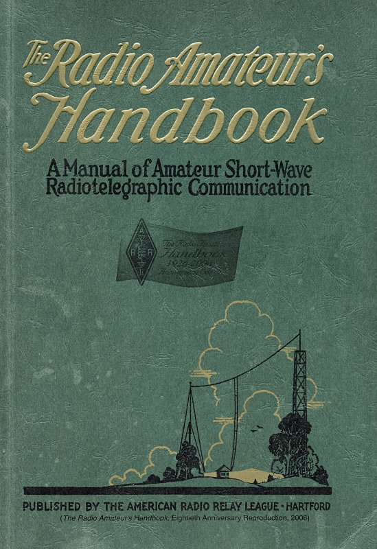 Reprint of the 1926 edition of the ARRL Handbook.